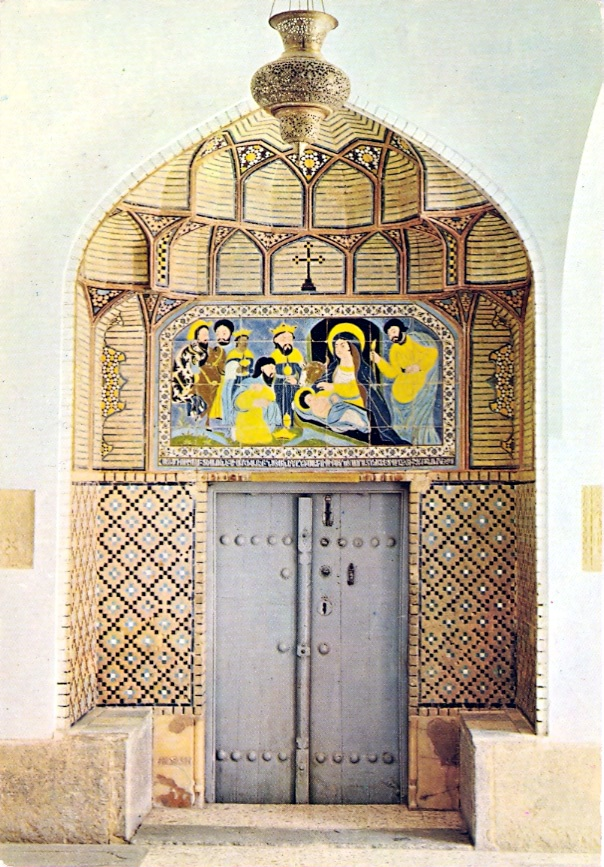 New Julfa, St. George’s Church, northern portal with the adoration of the magi. Courtesy of All Savior’s Monastery.